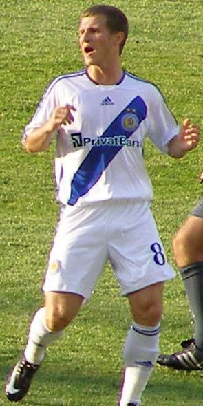 Oleksandr Aliyev - Ukrainian footballer